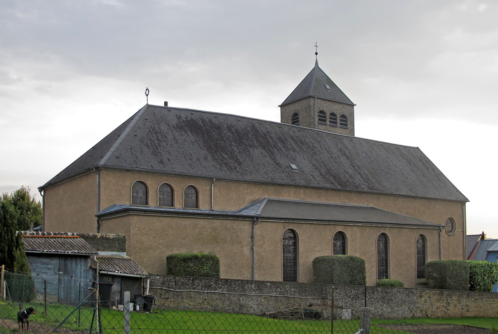 Church of Lorentzweiler, Luxembourg